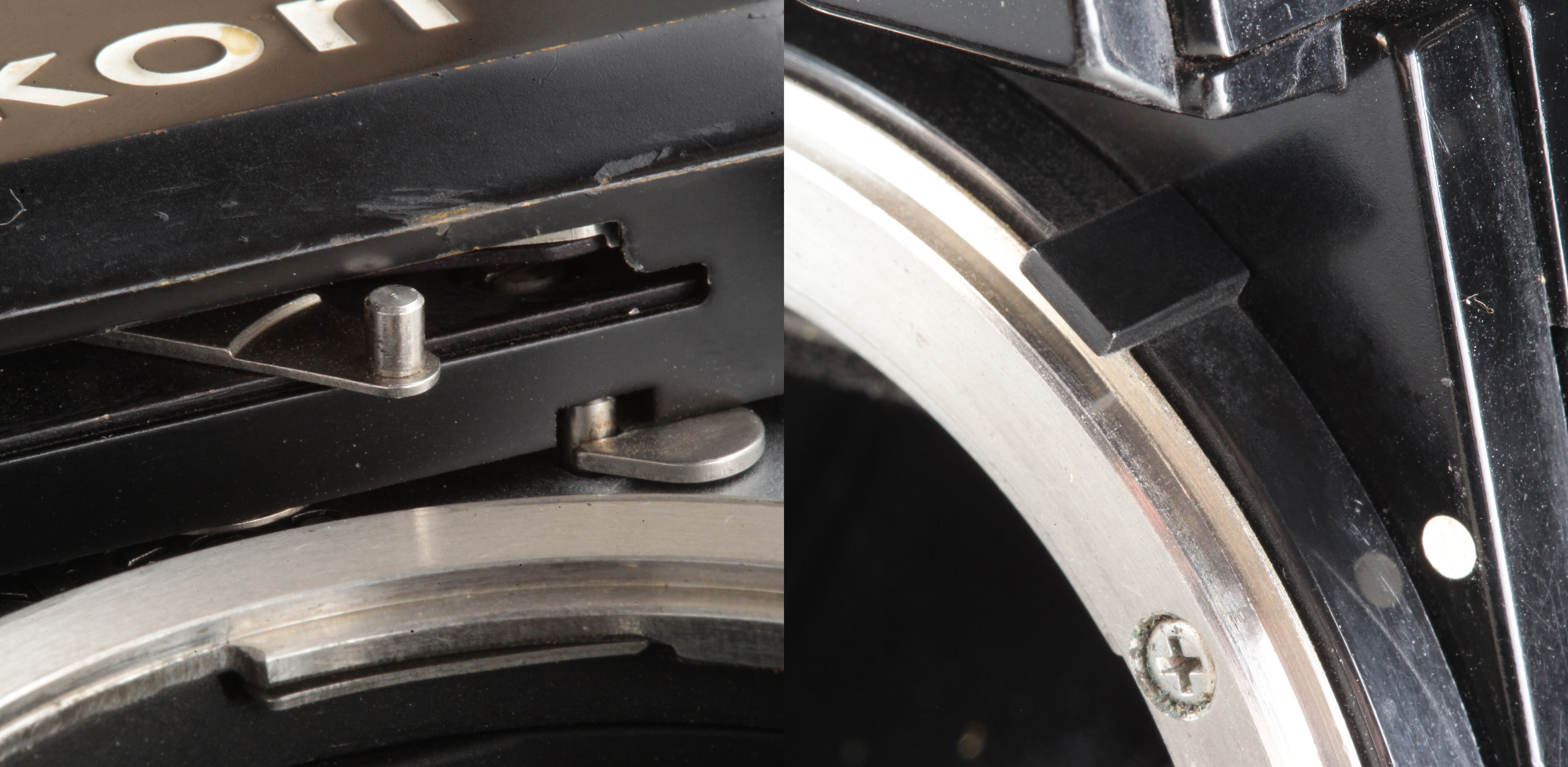 Comparison of non-AI (left) and AI-system (right) camera flange mount. Nikon F2 Photomic transmission lever (left) vs Nikon FM2 additional ring lever (right).